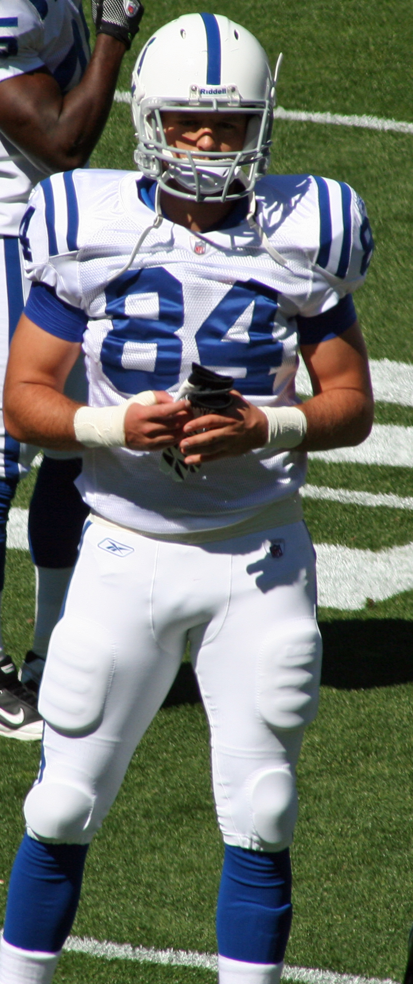 Jacob Tamme, a player on the Indianapolis Colts American football team.